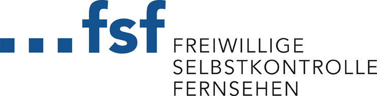 Logo of German Voluntary Self-Regulation of Television